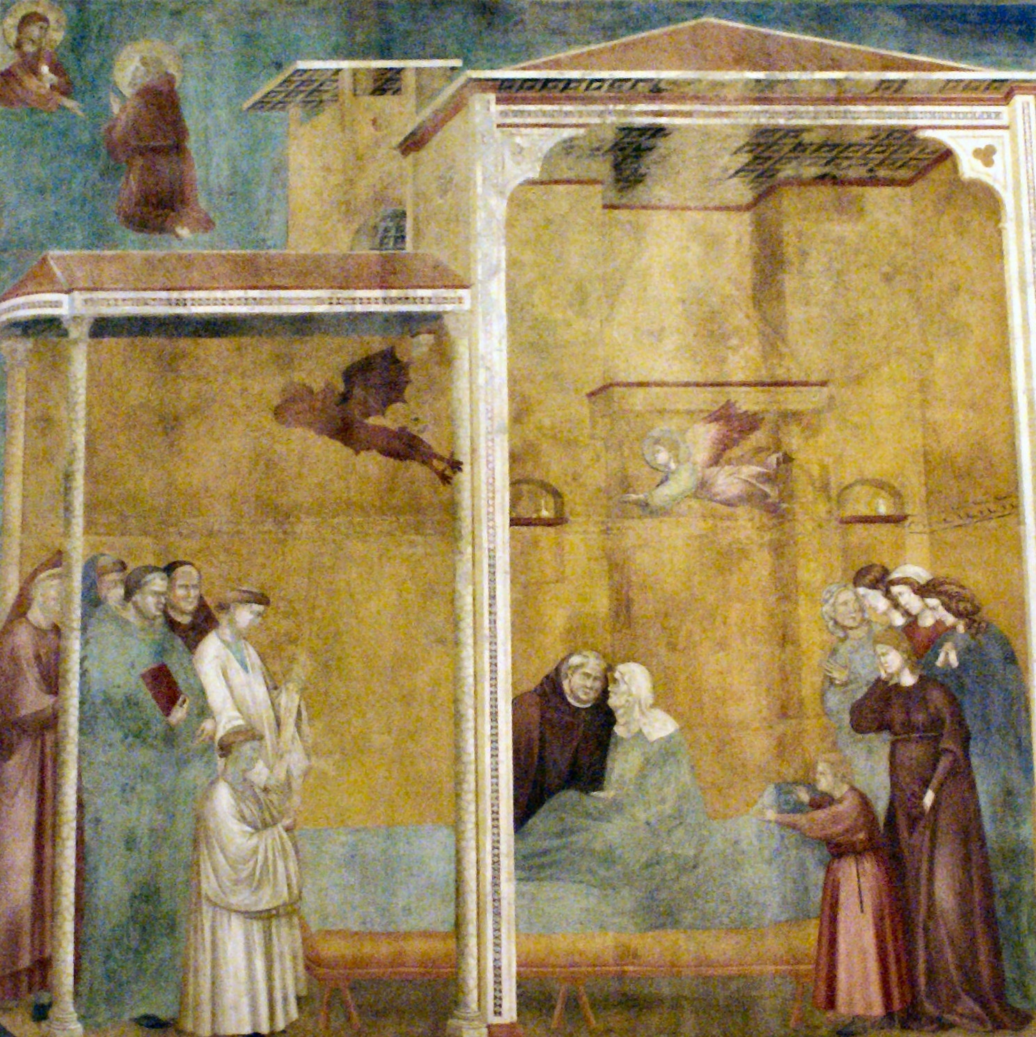 Giotto: Confession of the woman come back to life,Basilica of Saint Francis,Assisi